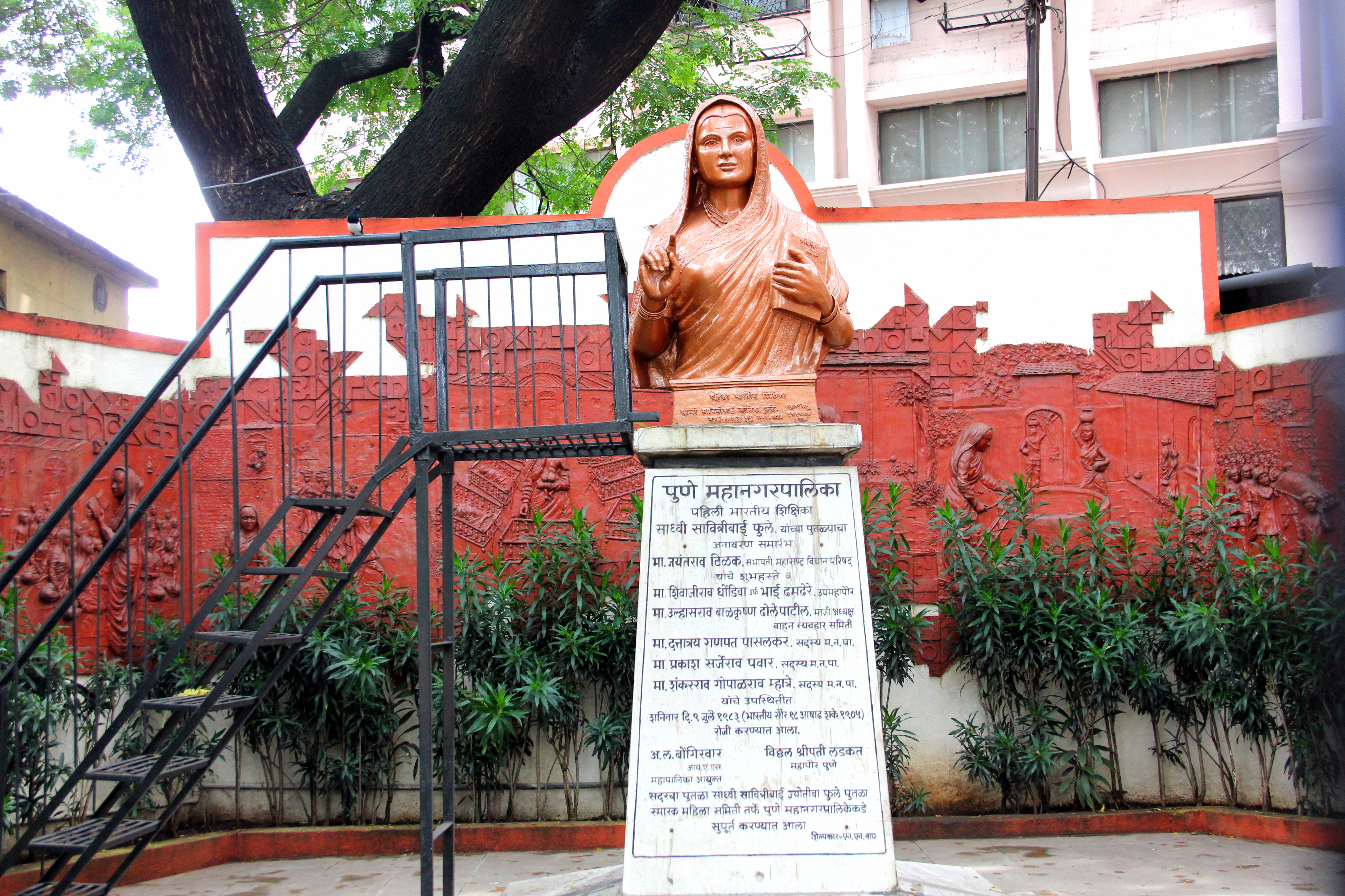 Sadhvi Savitri Phule